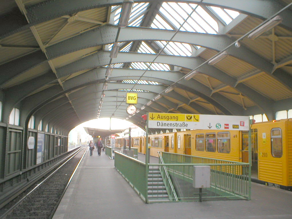 Platform of Berlin's U-Bahn station Schönhauser Allee, Line U2, Berlin, Germany